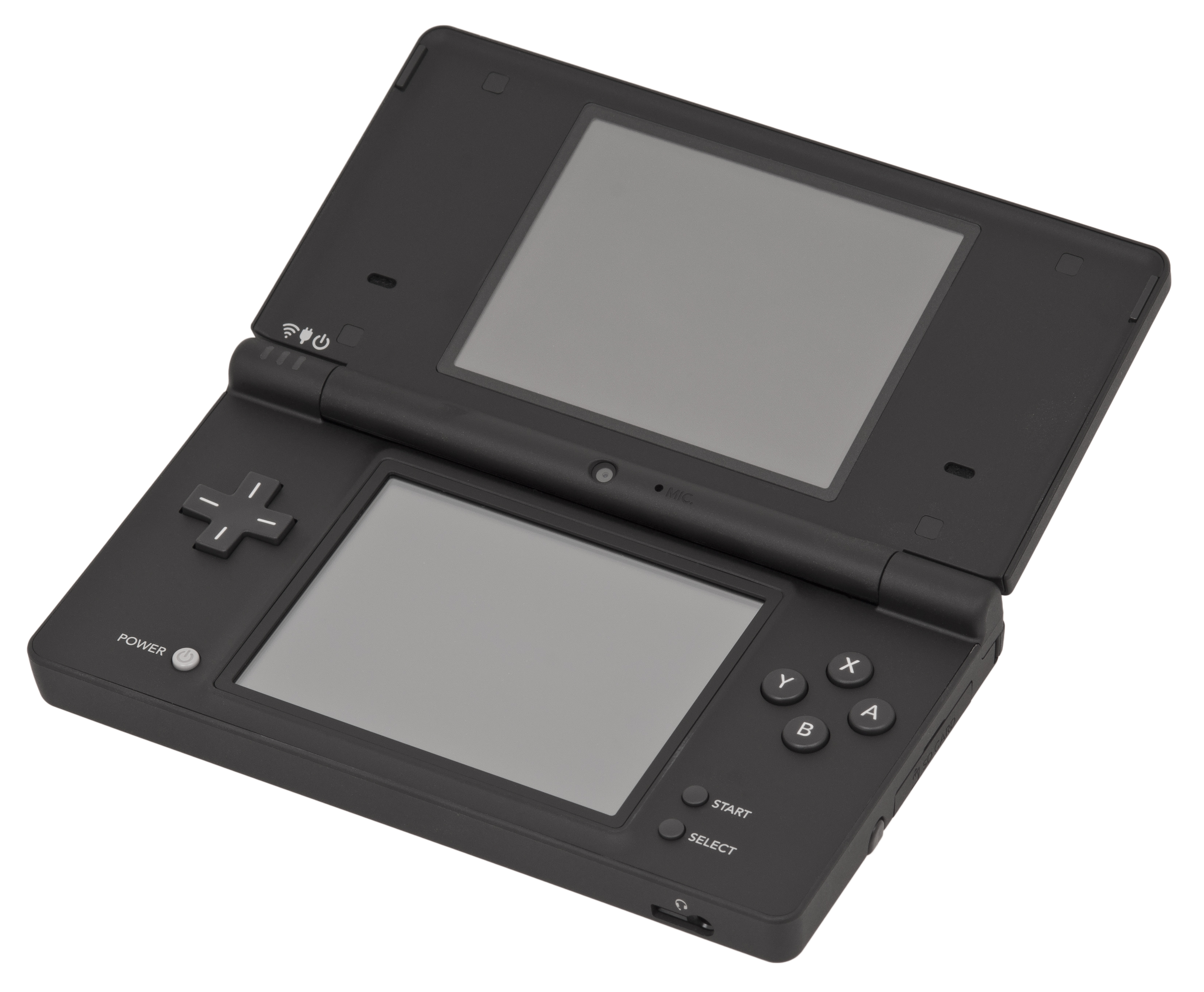 The Nintendo DSi. This is a redesign of the Nintendo DS that adds larger screens, cameras, and the addition of downloadable games through the DSi shop.